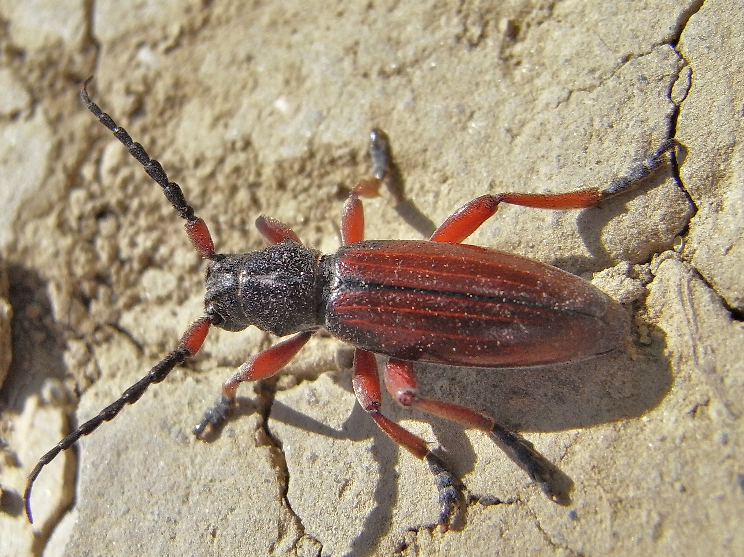 Carinatodorcadion fulvum from Hungary at 2010-05-06 near Harkany Ricoh R8